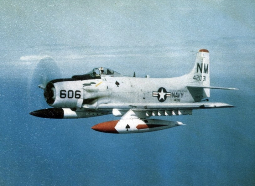 A U.S. Navy Douglas A-1J Skyraider (BuNo 142031) from Attack Squadron 196 (VA-196) "Main Battery" in flight. VA-196 was assigned to Carrier Air Wing 19 (CVW-19) aboard the aircraft carrier USS Bon Homme Richard (CVA-31) for a deployment to the Western Pacific and Vietnam from 28 January to 21 November 1964. The A-1J 142031 was later shot down while in service with VA-145, CVW-14 ("NK-504"), on USS Ranger (CVA-61). On 1 February 1966 Lt(jg) Dieter Dengler was flying A-1J 142031 on his very first combat mission. After struck by ground fire, Dengler crash-landed near Ban Phathoung, Khammouan Province, Laos, was captured and imprisoned by the Pathet Lao. He escaped eight days later, but was recaptured. He escaped again on 30 June 1966 and was later rescued by a USAF Sikorsky HH-3E Jolly Green Giant helicopter. He returned to the squadron on 21 July 1966. Dengler was awarded the Navy Cross for his escape.